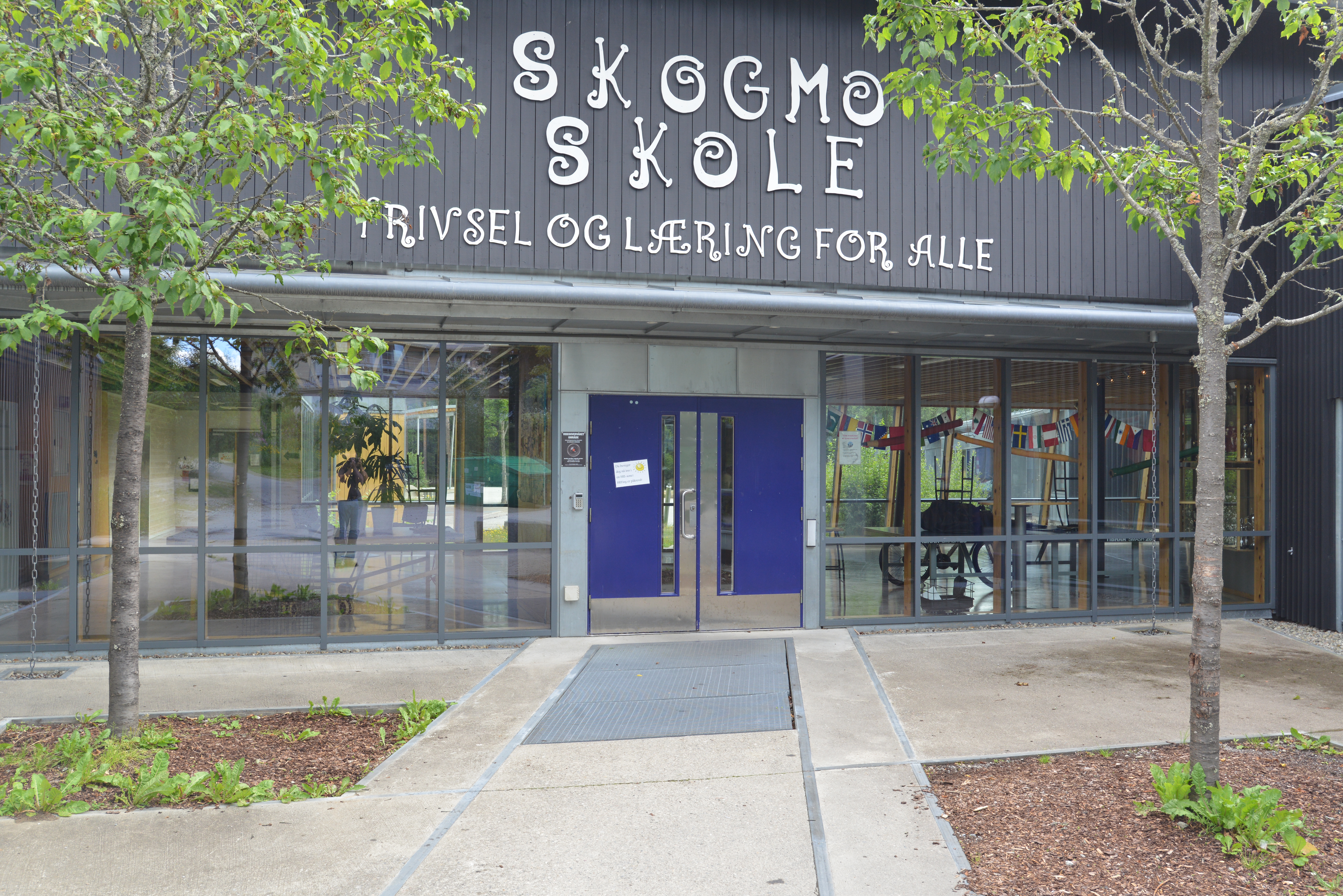 Skogmo school in Jessheim